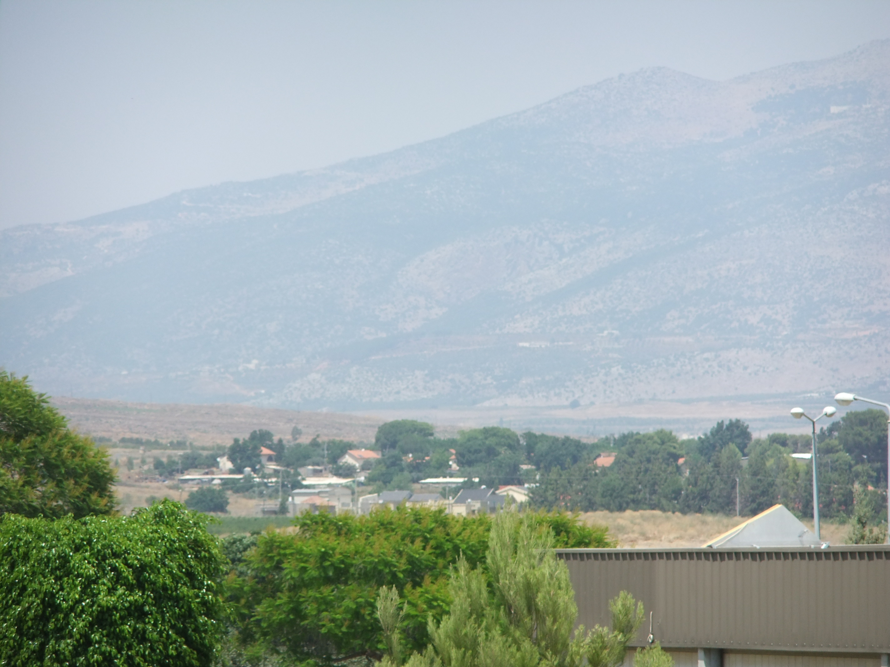 Moshav Yuval from the Tel Hai industry area